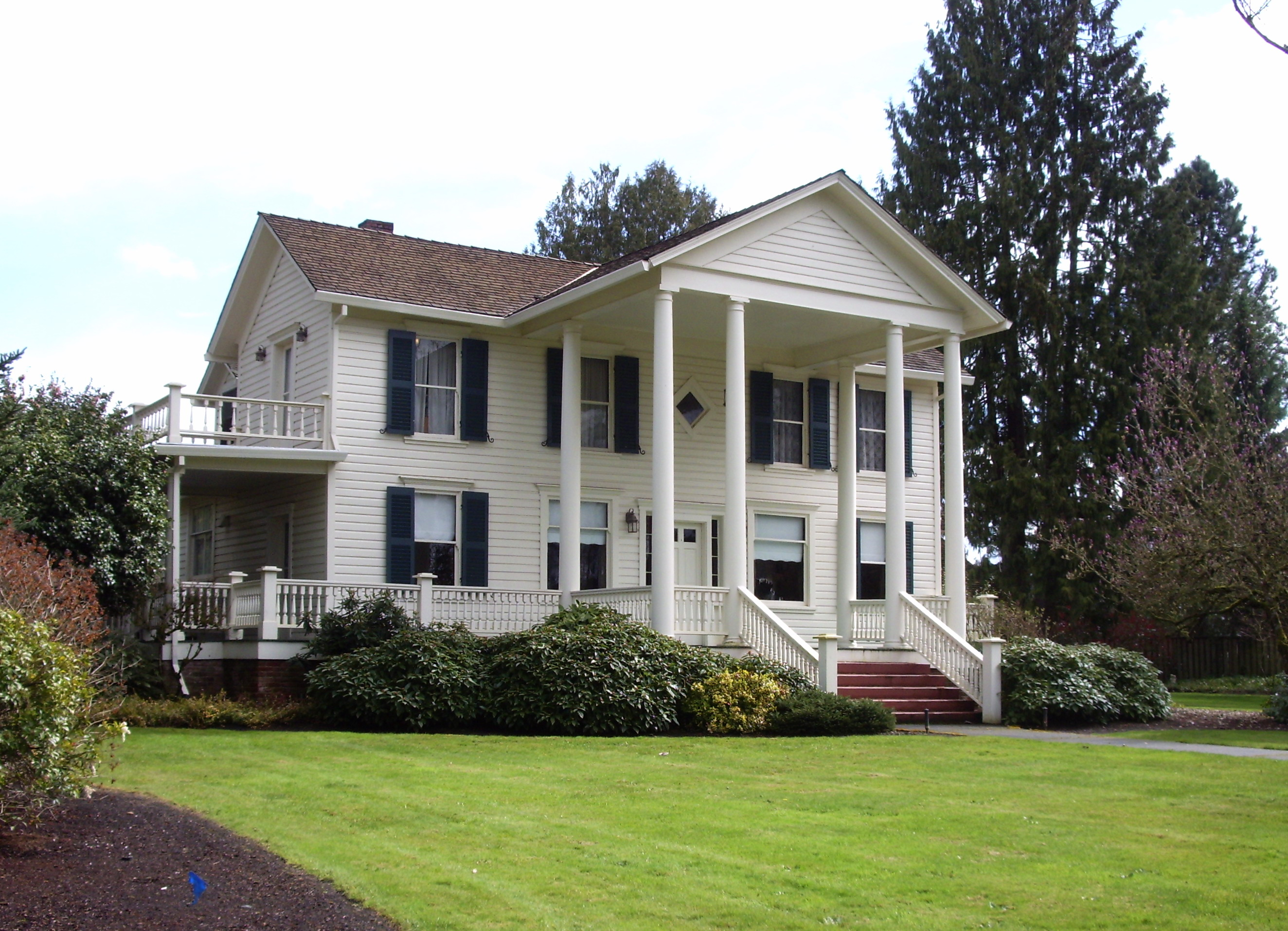 View of Palmer House in Dayton, Oregon from corner of front yard.